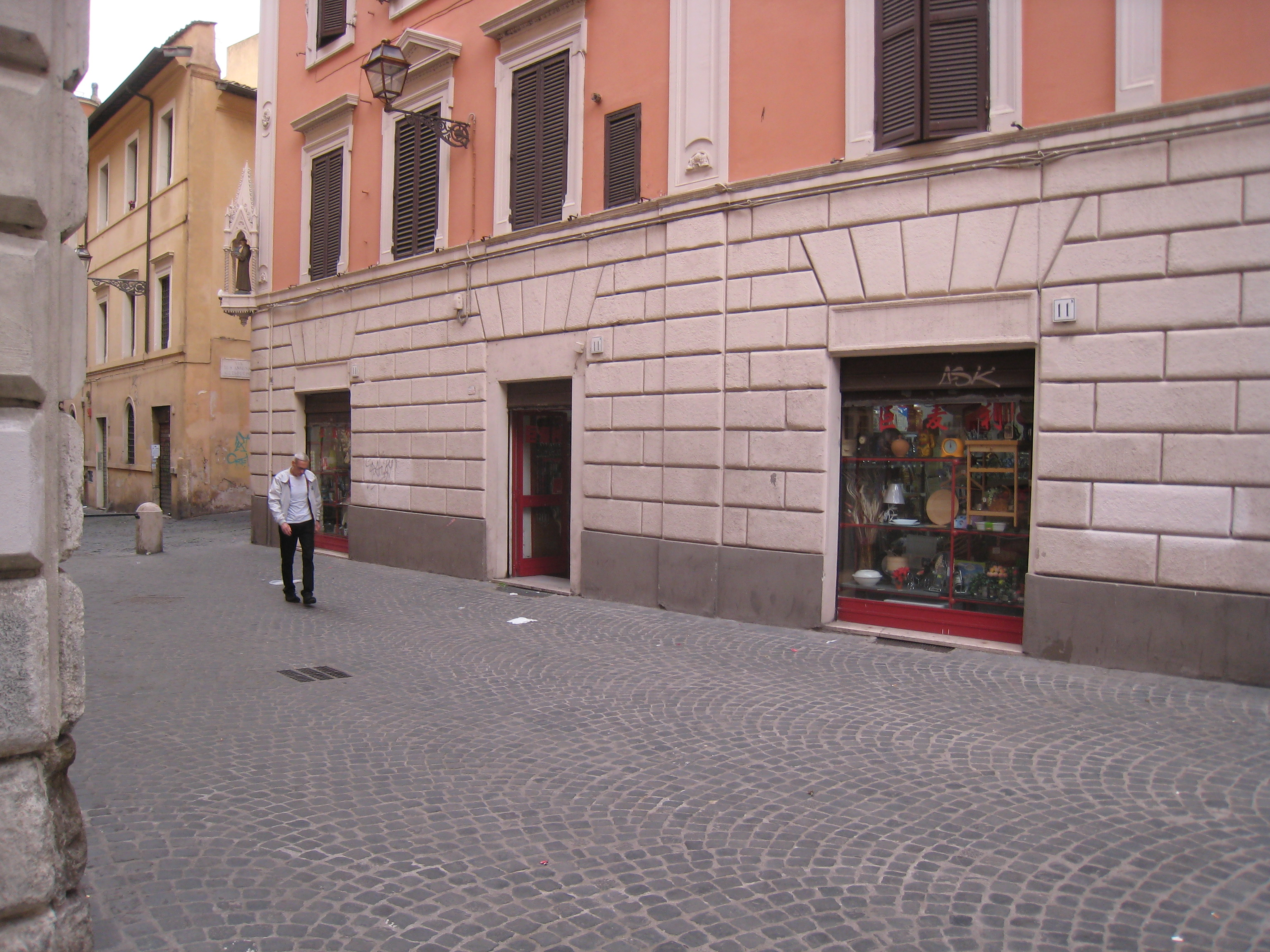 via di San Vito, Rome